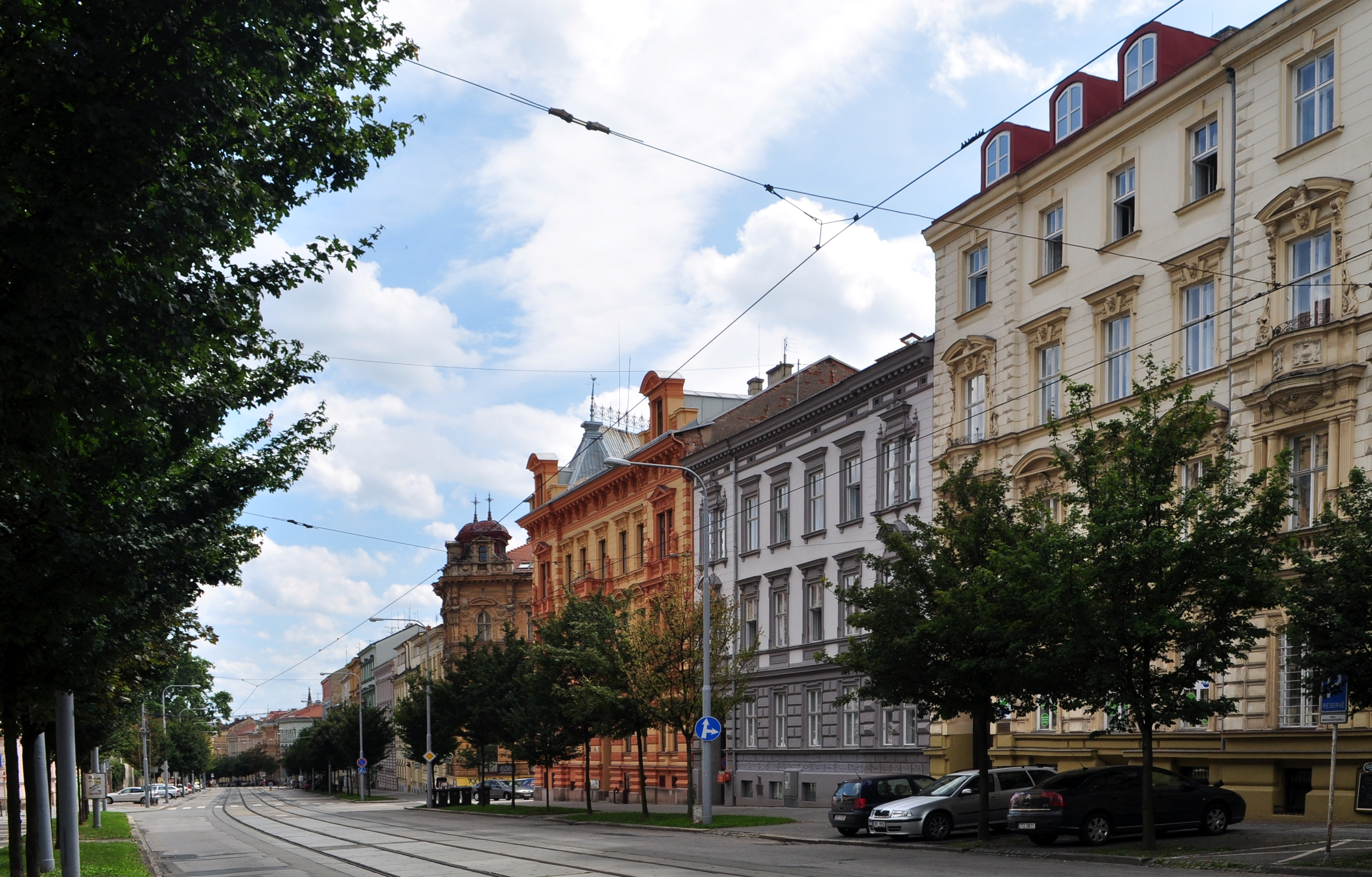 Veveří street in Brno